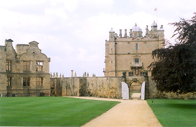 Bolsover Castle, Derbyshire, England Photo' by Wikityke